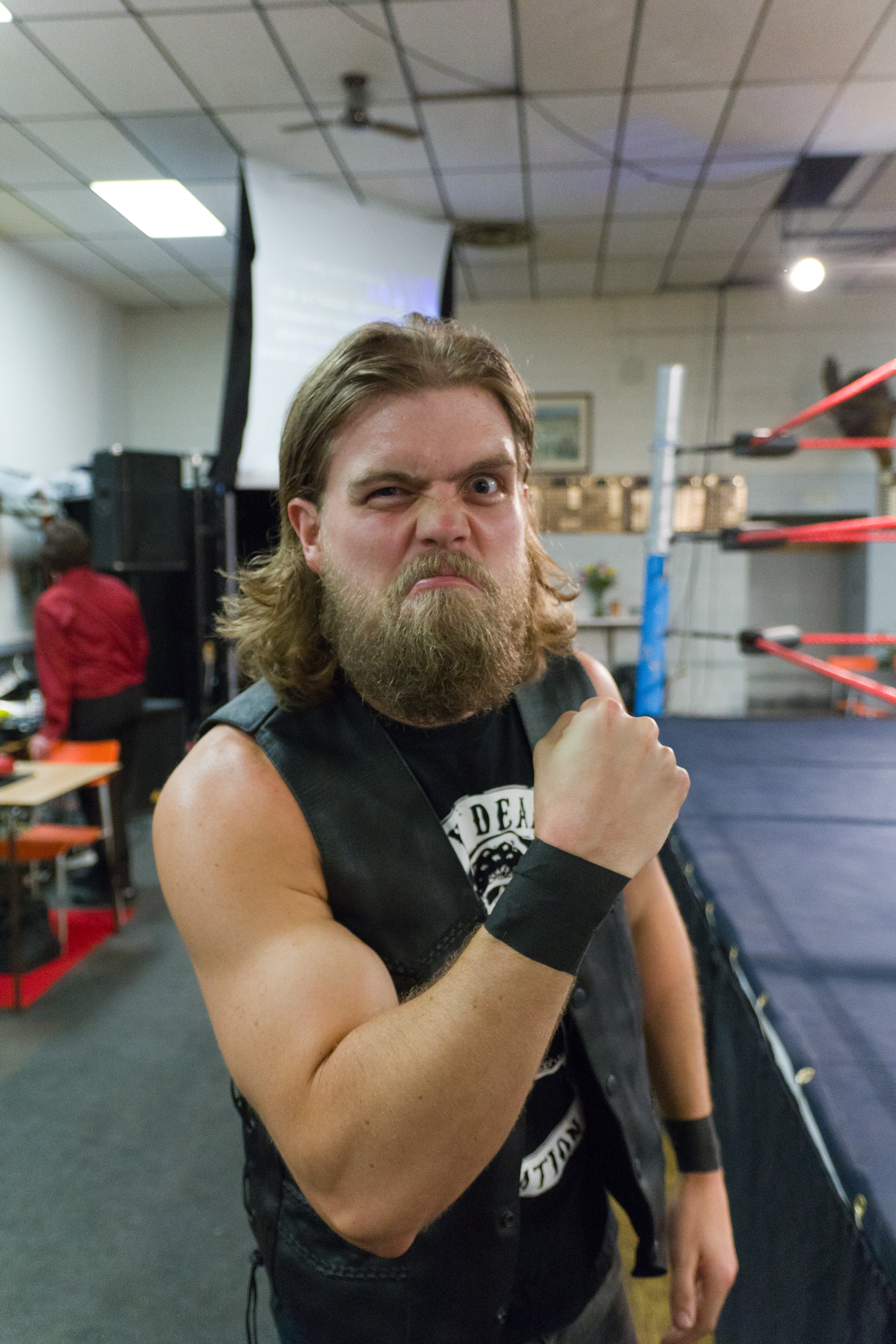 Cody Deener at a TCW show in Kitchener